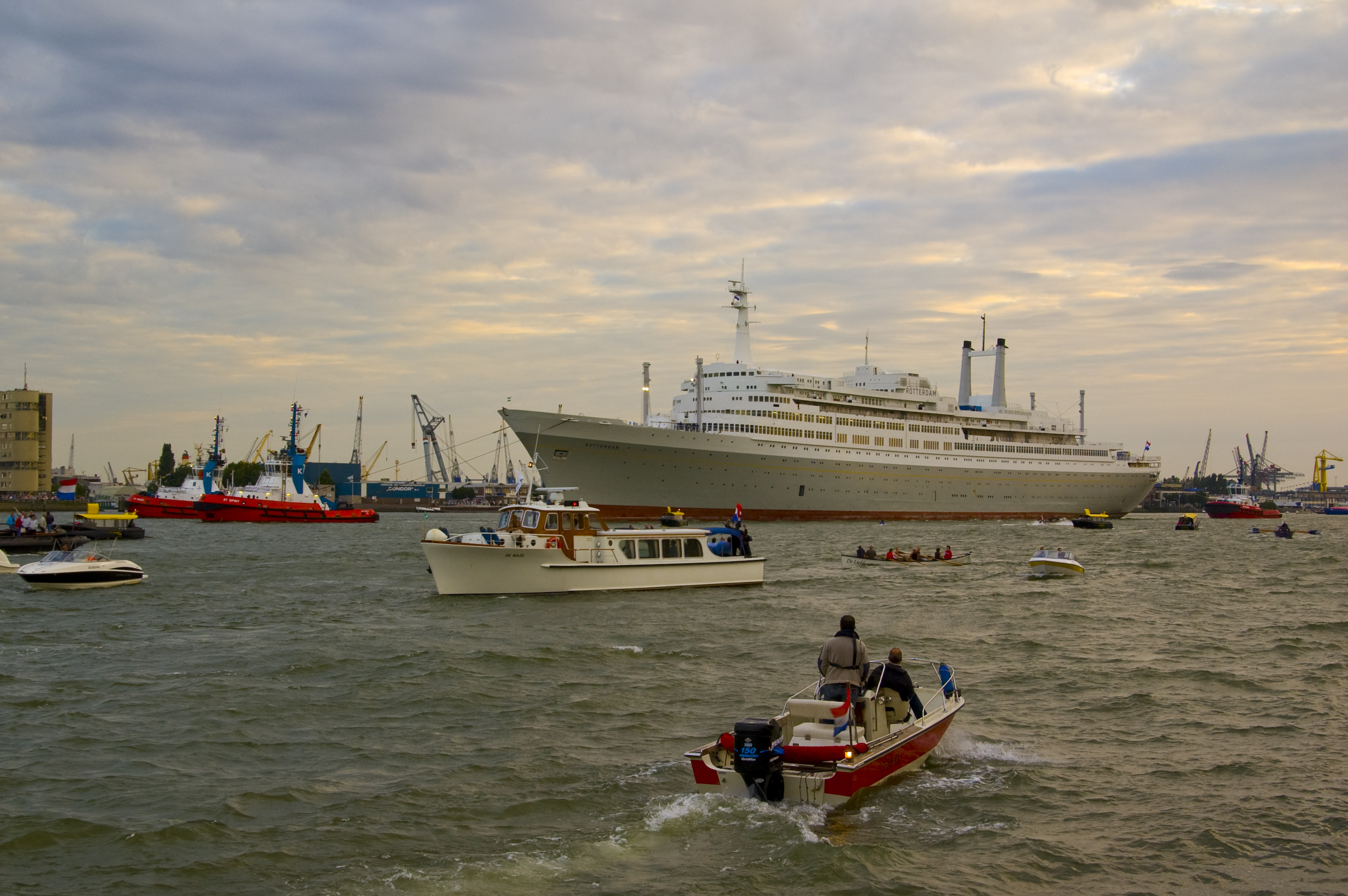 Arrival of "Rotterdam" on 4 August 2008 at her home city